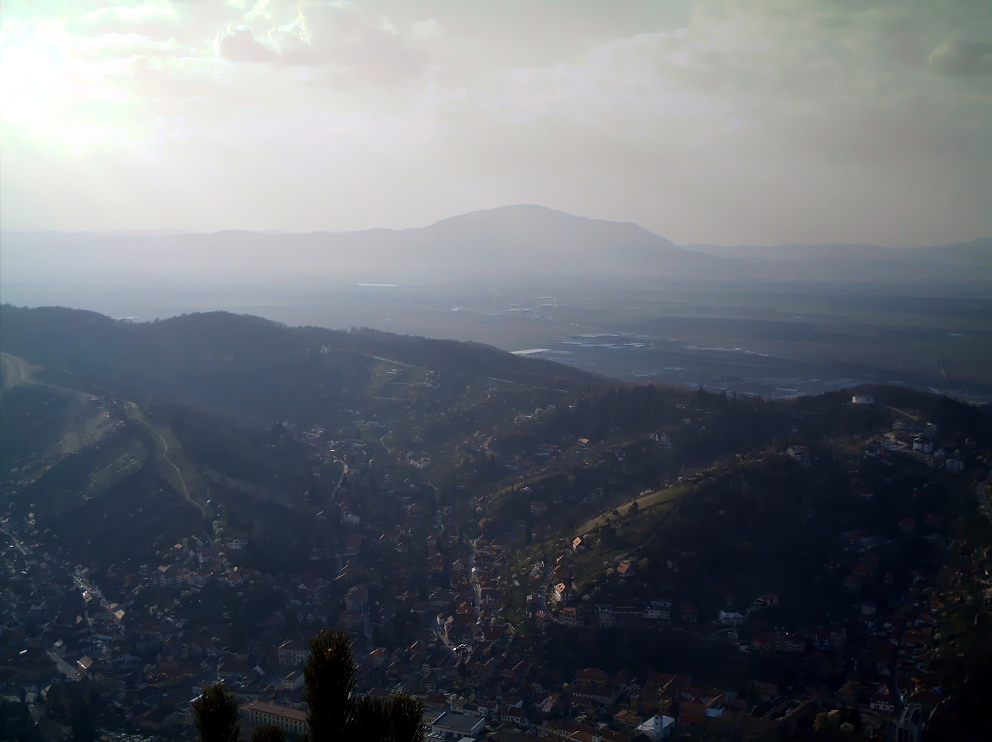 View over Burzenland from Tampa mountain, Brasov